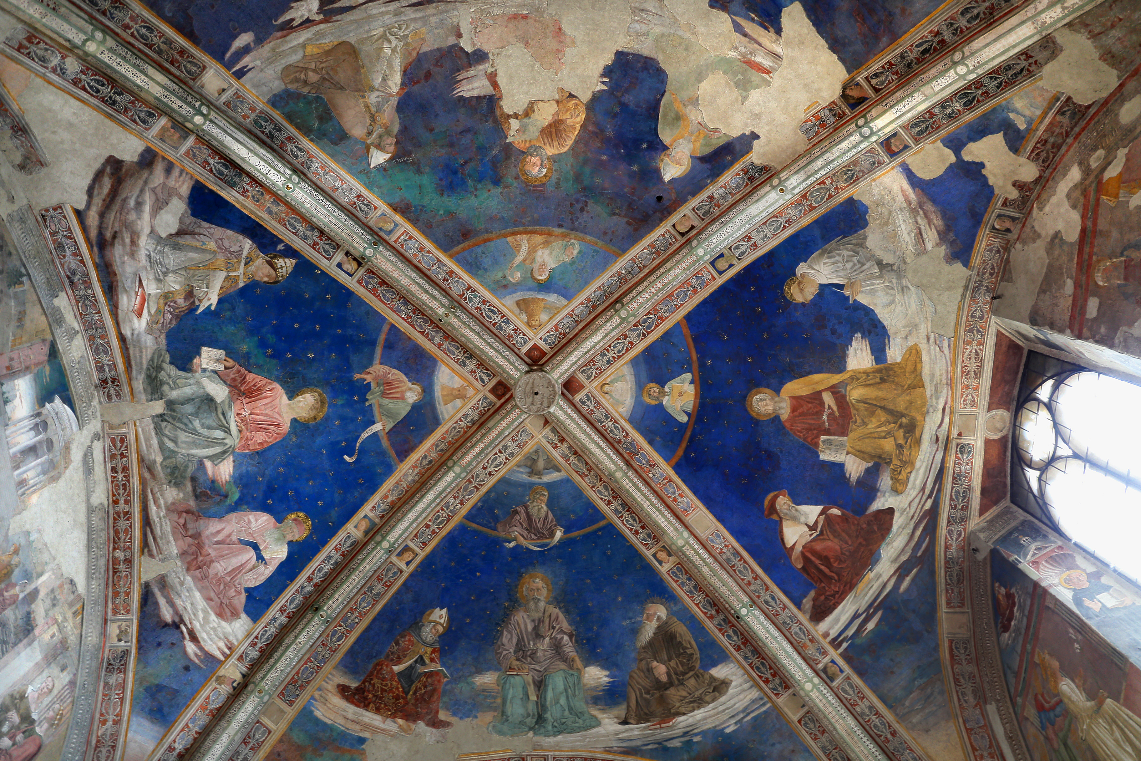 Cappella Mazzatosta